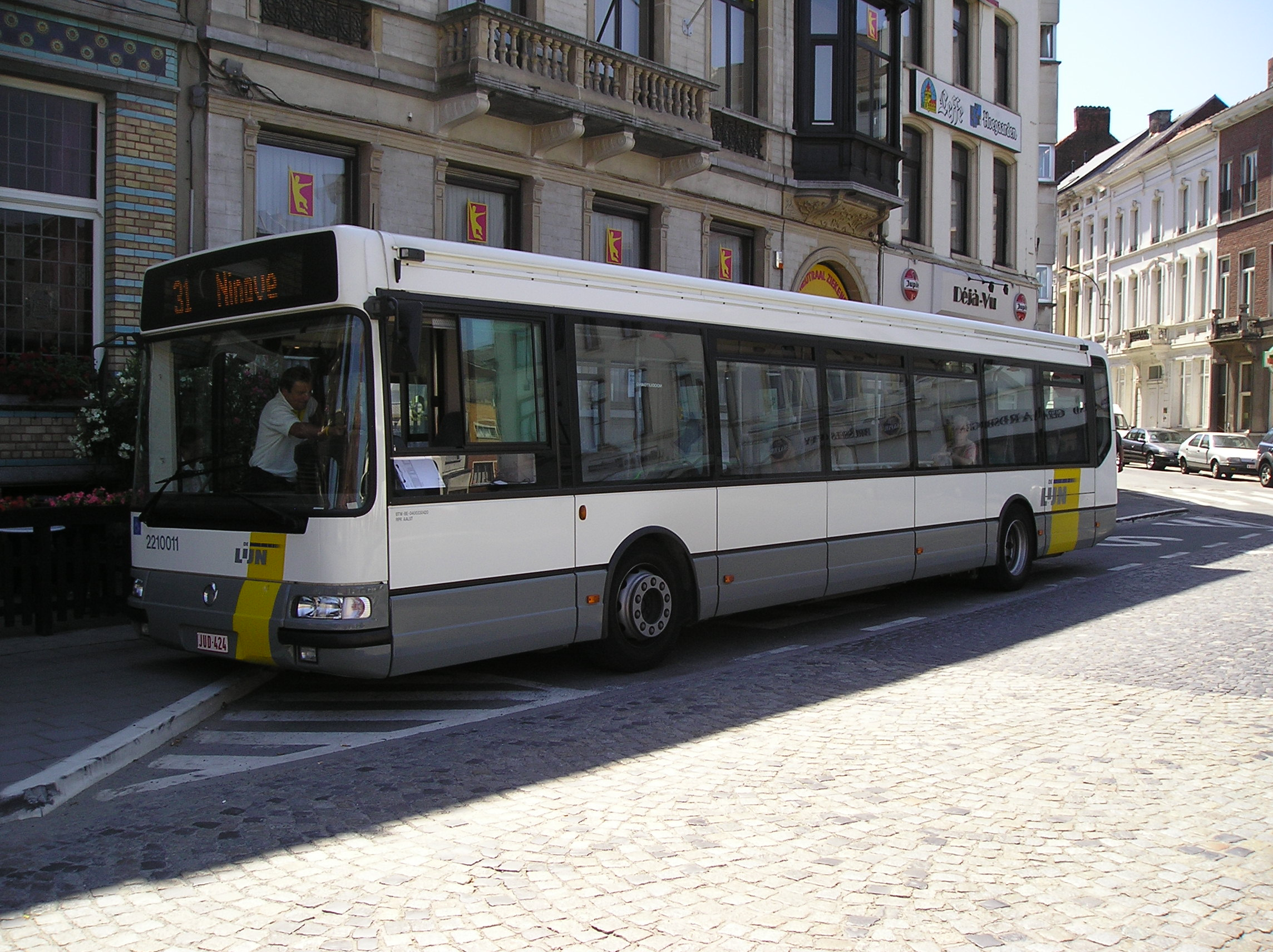 Bus in front of the Aalst train station.